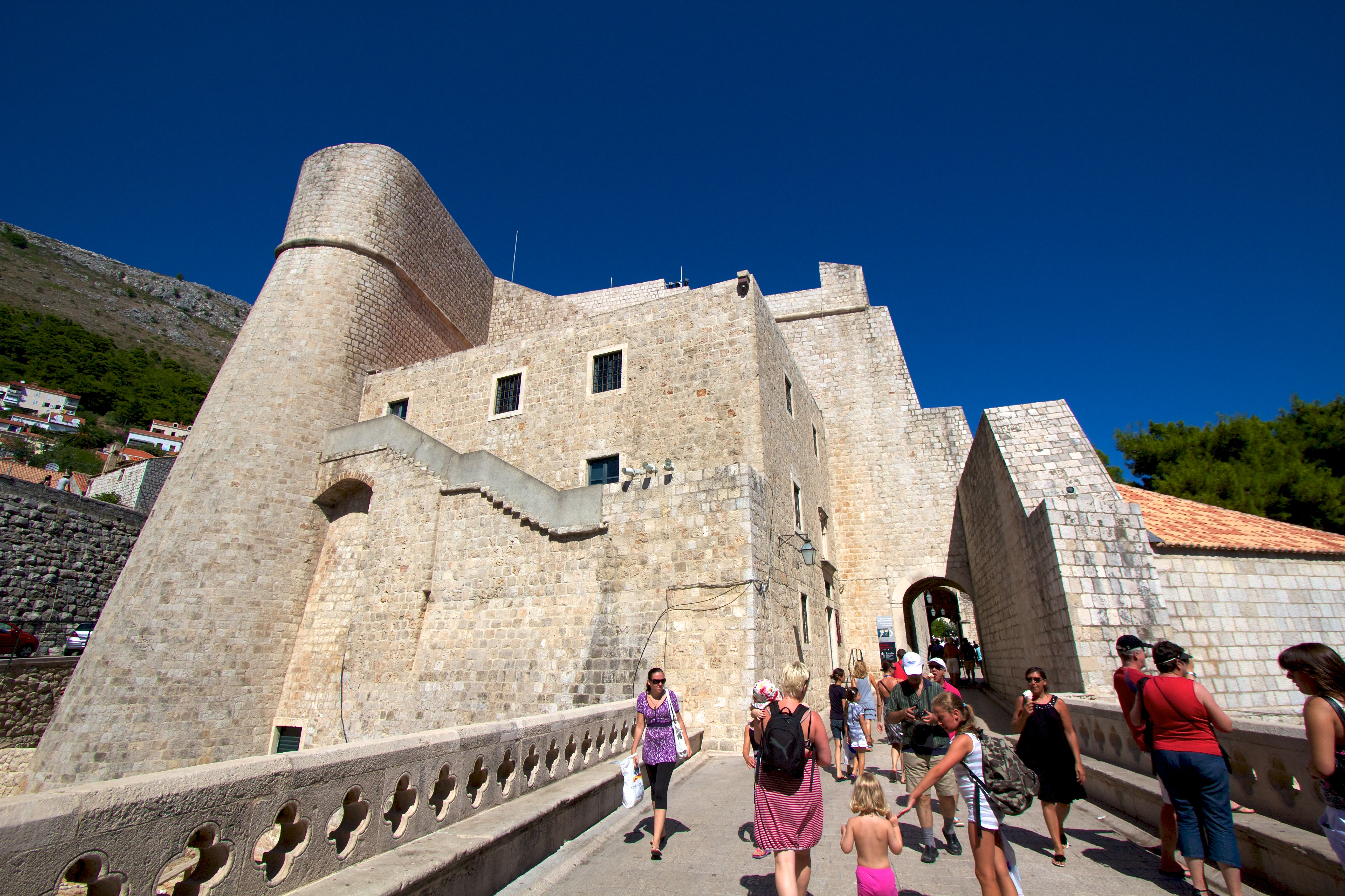 The entrance to the fort Revelin, Dubrovnik.